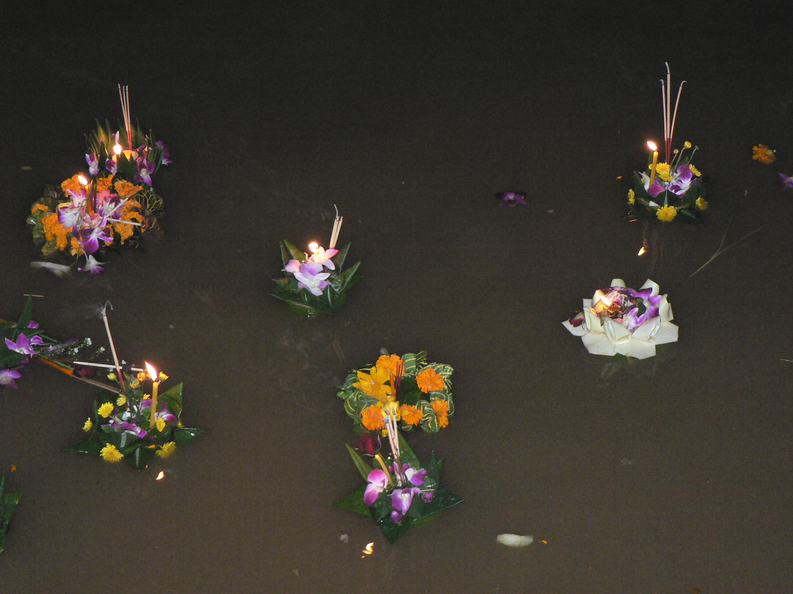 Loi Krathong, Chiang Mai 2005